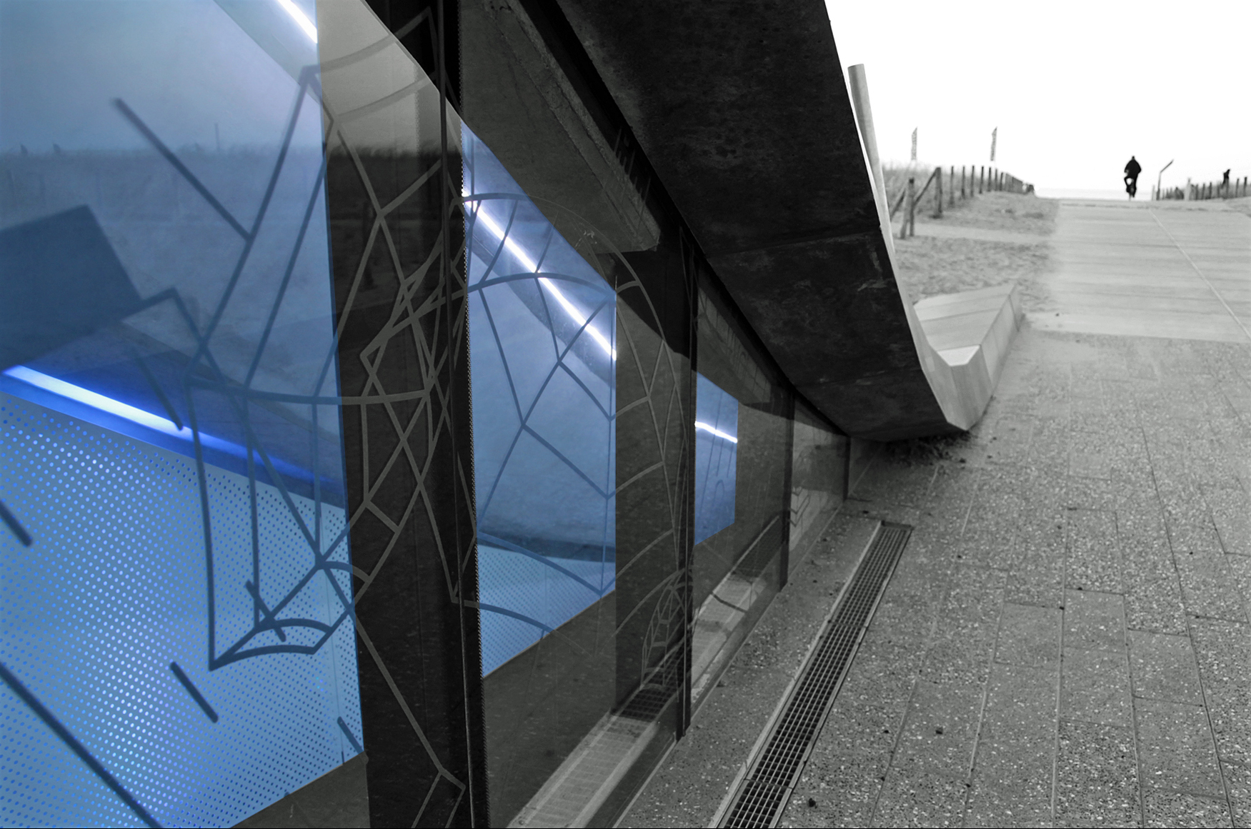 Katwijk aan zee, Netherlands - Coastal Work - Date: March 13, 2015.